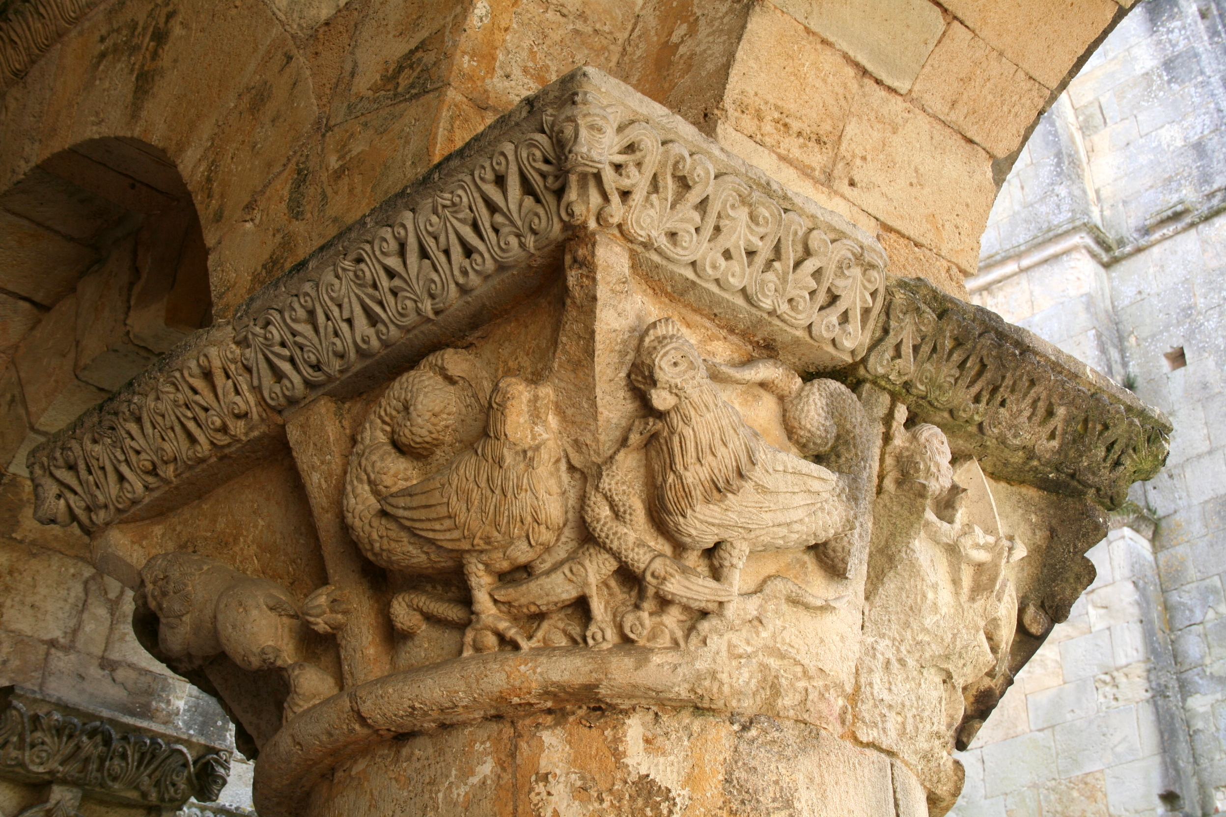 Grande-Sauve Abbey (33) Battle of Two Asps against Two Basilisks, early 12th century date QS:P,+1150-00-00T00:00:00Z/7